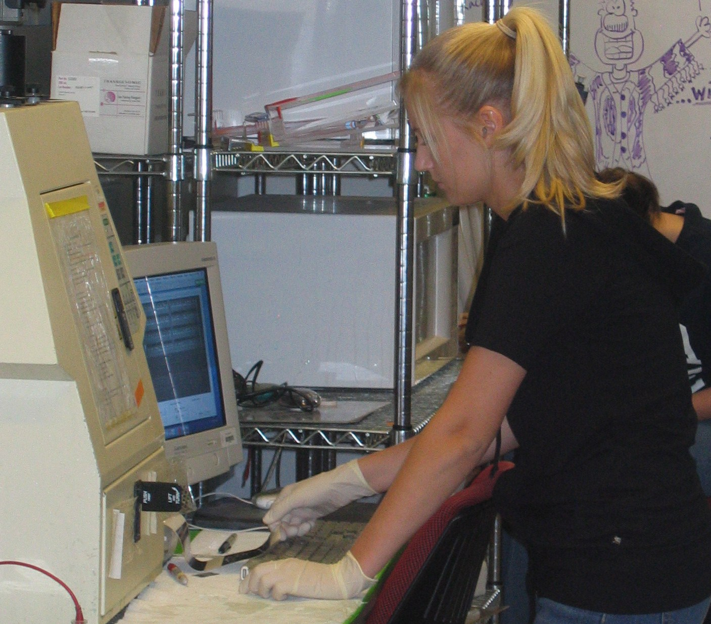 Image courtesy of the Department of Agronomy, Iowa State University. (